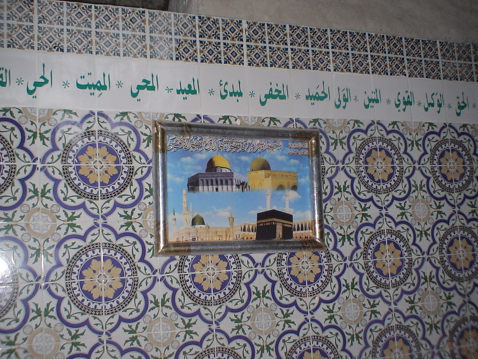 Zaouia of Sidi Ali El Mekki